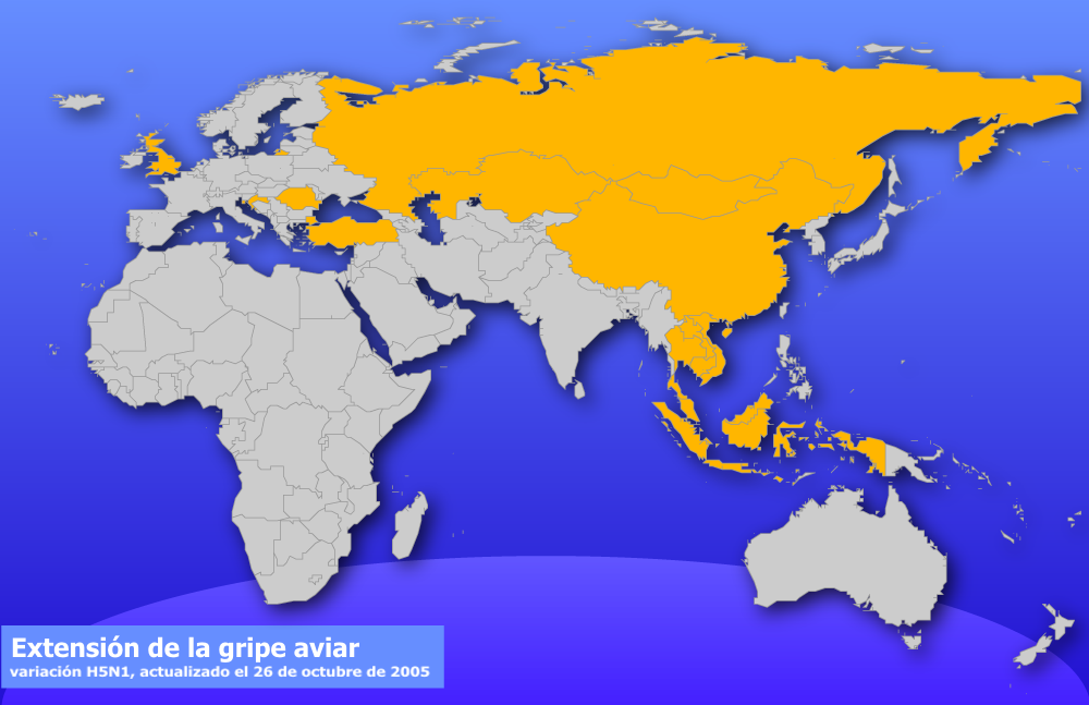 modified version of by Xerxes2k under Creative Commons licence